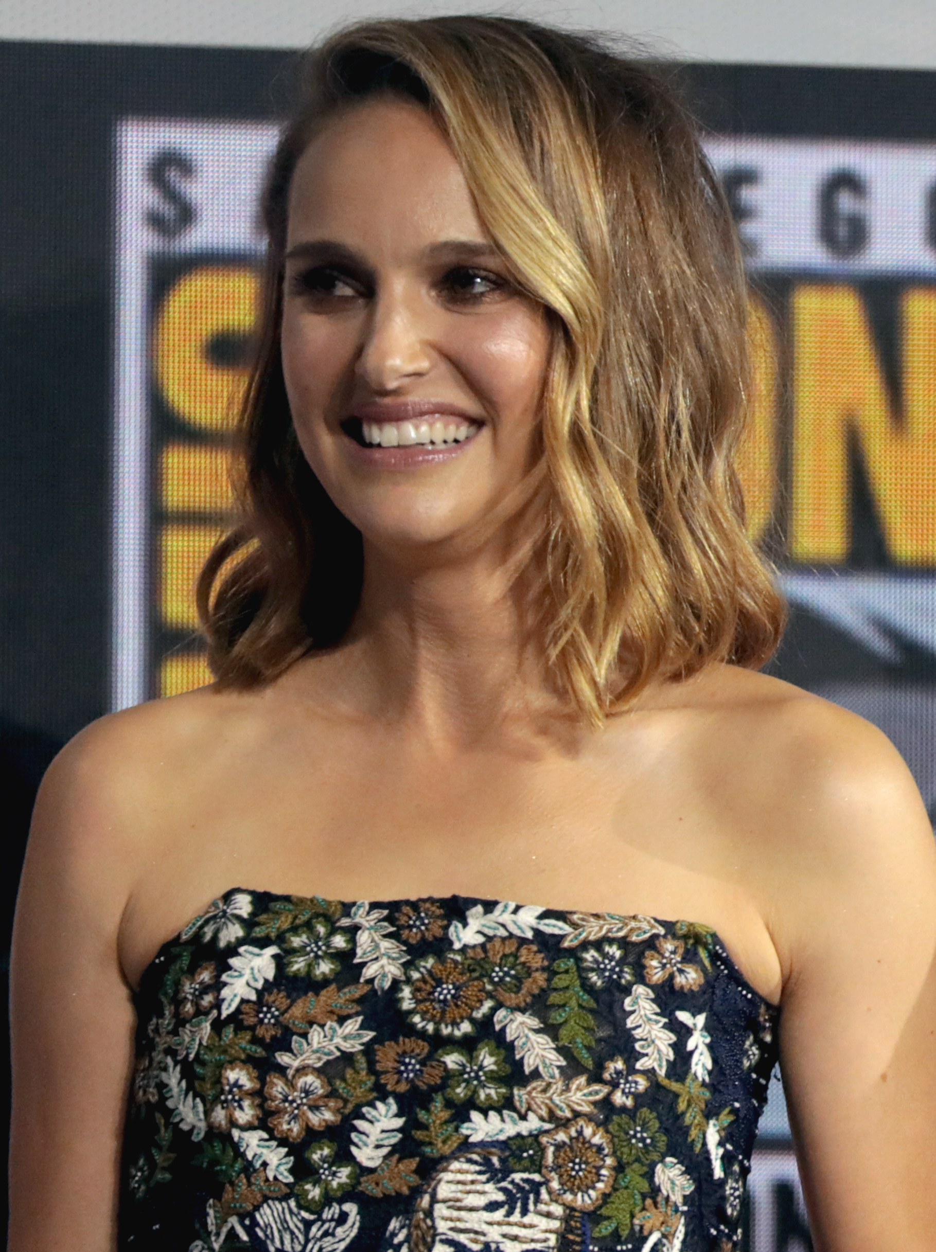 Natalie Portman and Chris Hemsworth speaking at the 2019 San Diego Comic Con International, for "Thor: Love and Thunder", at the San Diego Convention Center in San Diego, California.